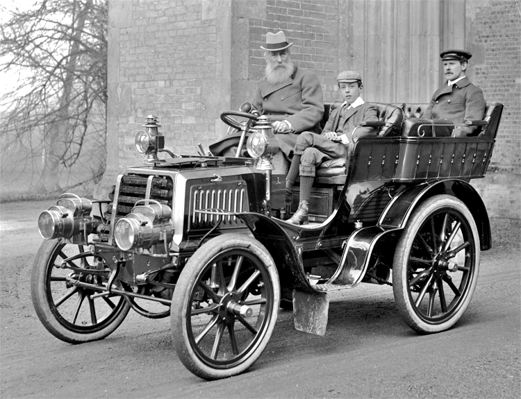 12 h.p. Panhard motor car being driven by Ivor Bertie Guest, 1st Baron Wimborne (1835-1914), ca. 1902